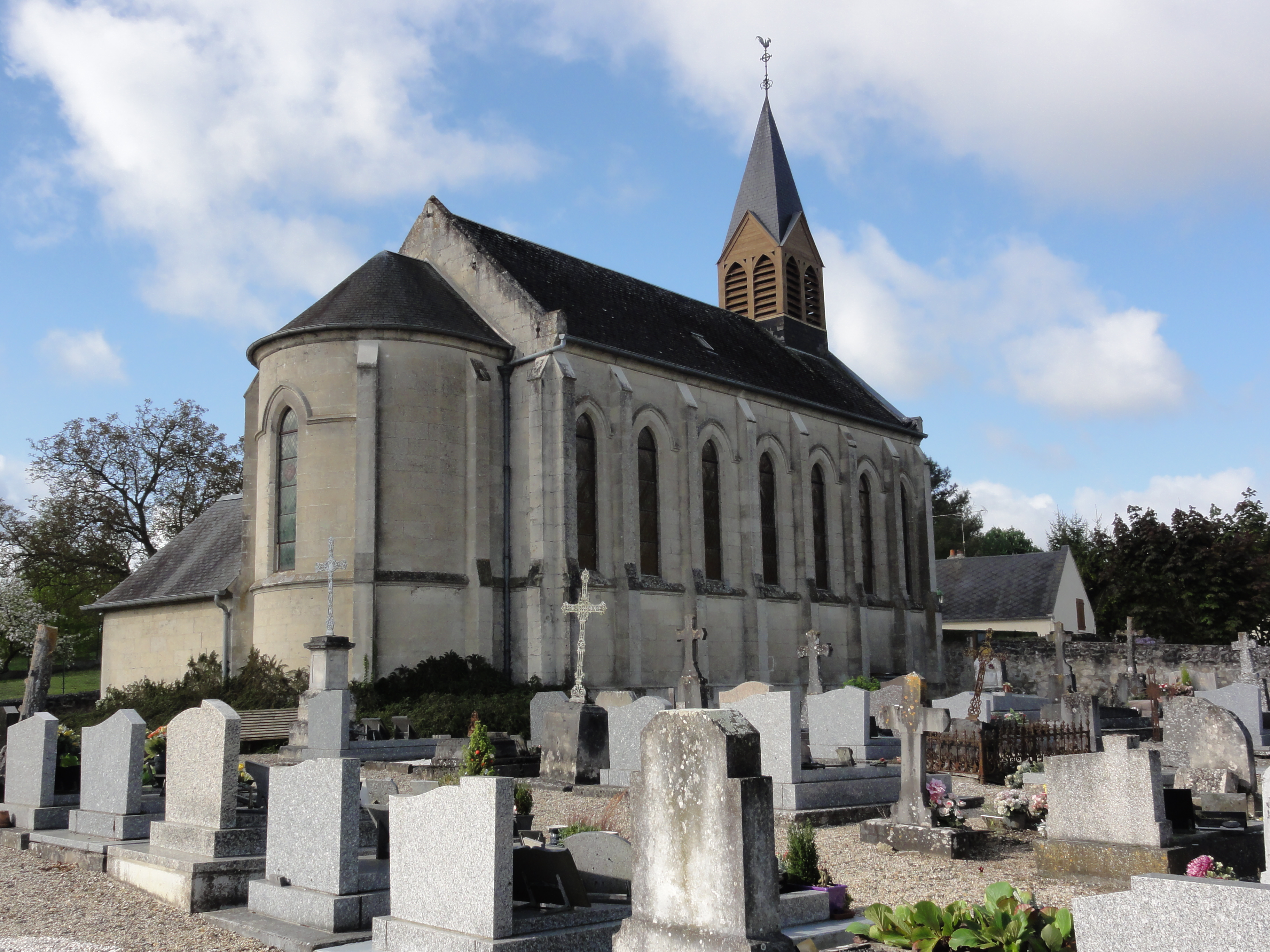 Clacy-et-Thierret (Aisne) église